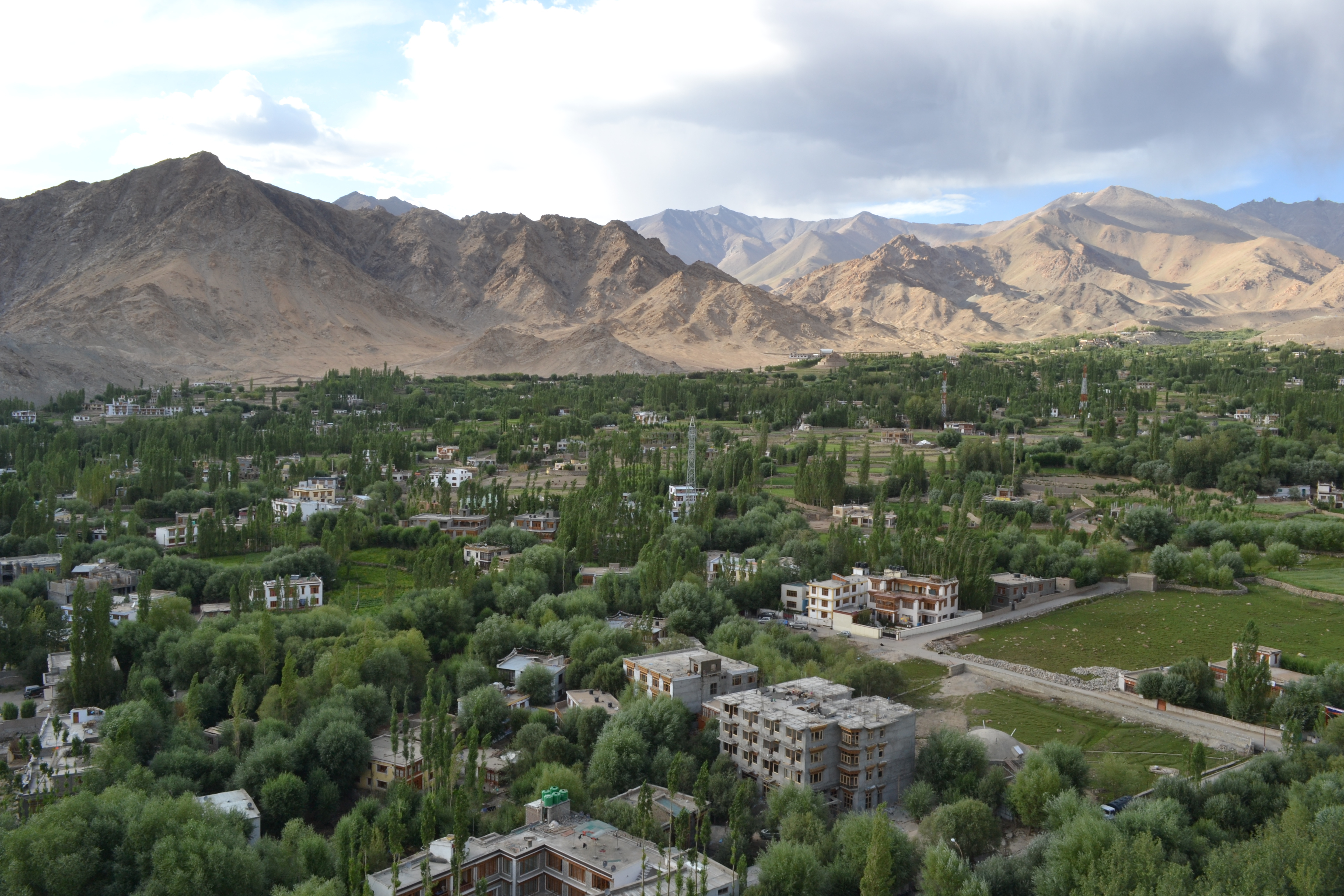 Ancient Palace